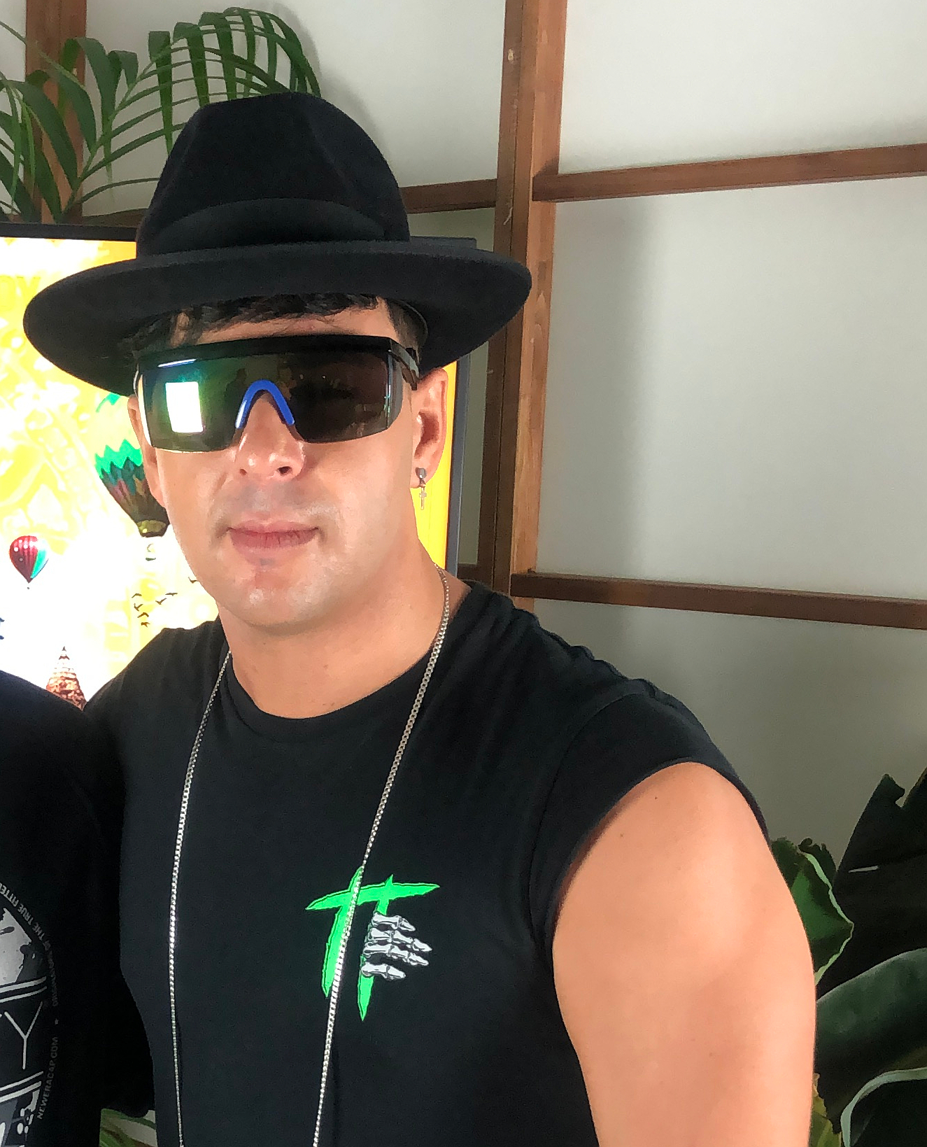 Australian dj Timmy Trumpet after an interview at Airbeat One Festival 2019 in Neustadt-Glewe, Germany.